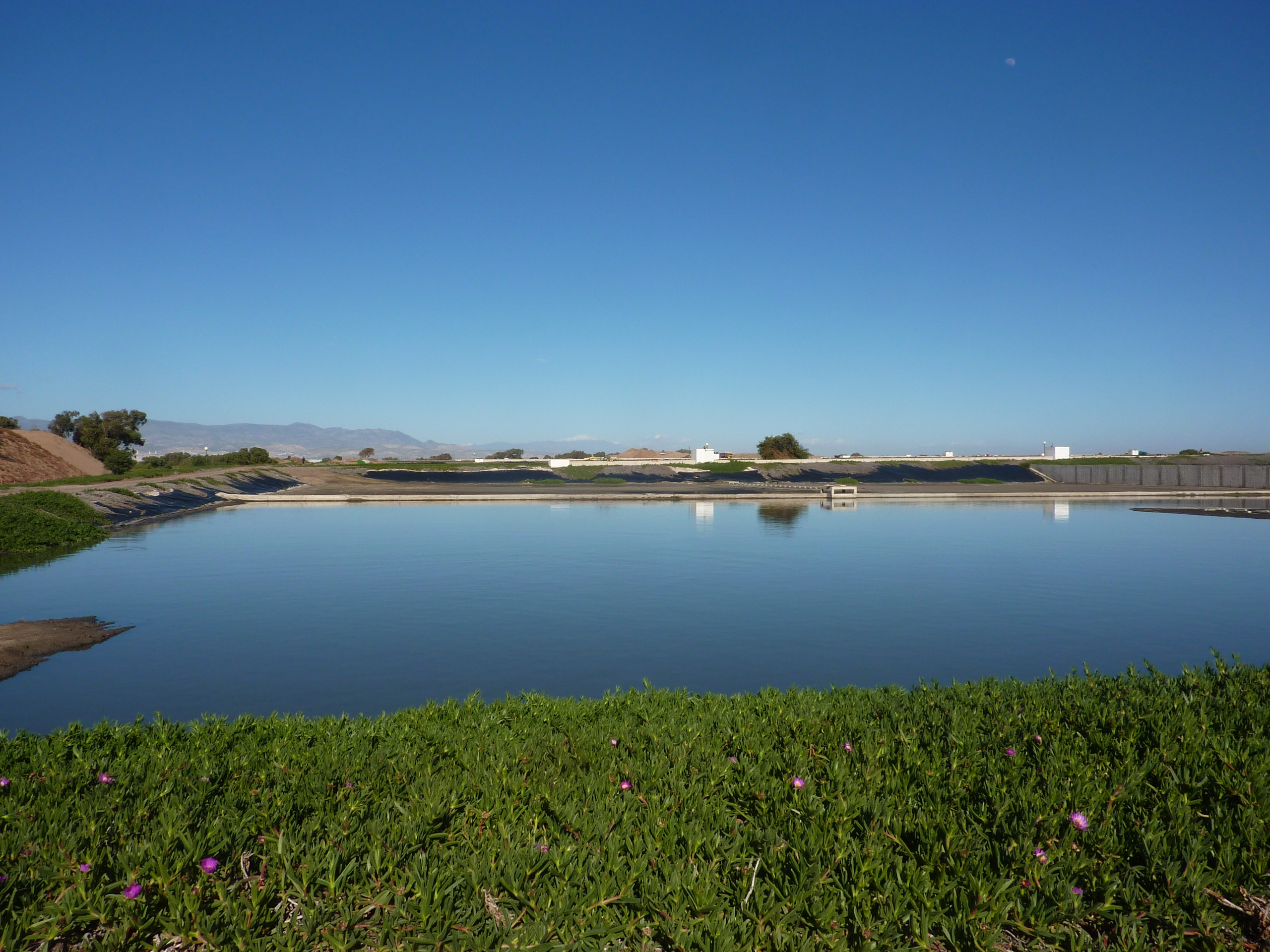 Photo taken by Lydia Herrmann, Feb. 2013 Traitement secondaire: Traitement biologique (boues activées) For further information